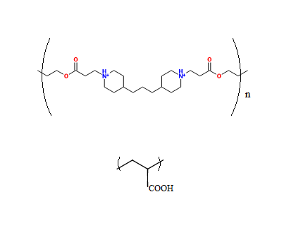 Precursor monomers for a microbicidal base layer for an implant enhancing polyelectrolyte multilayer.